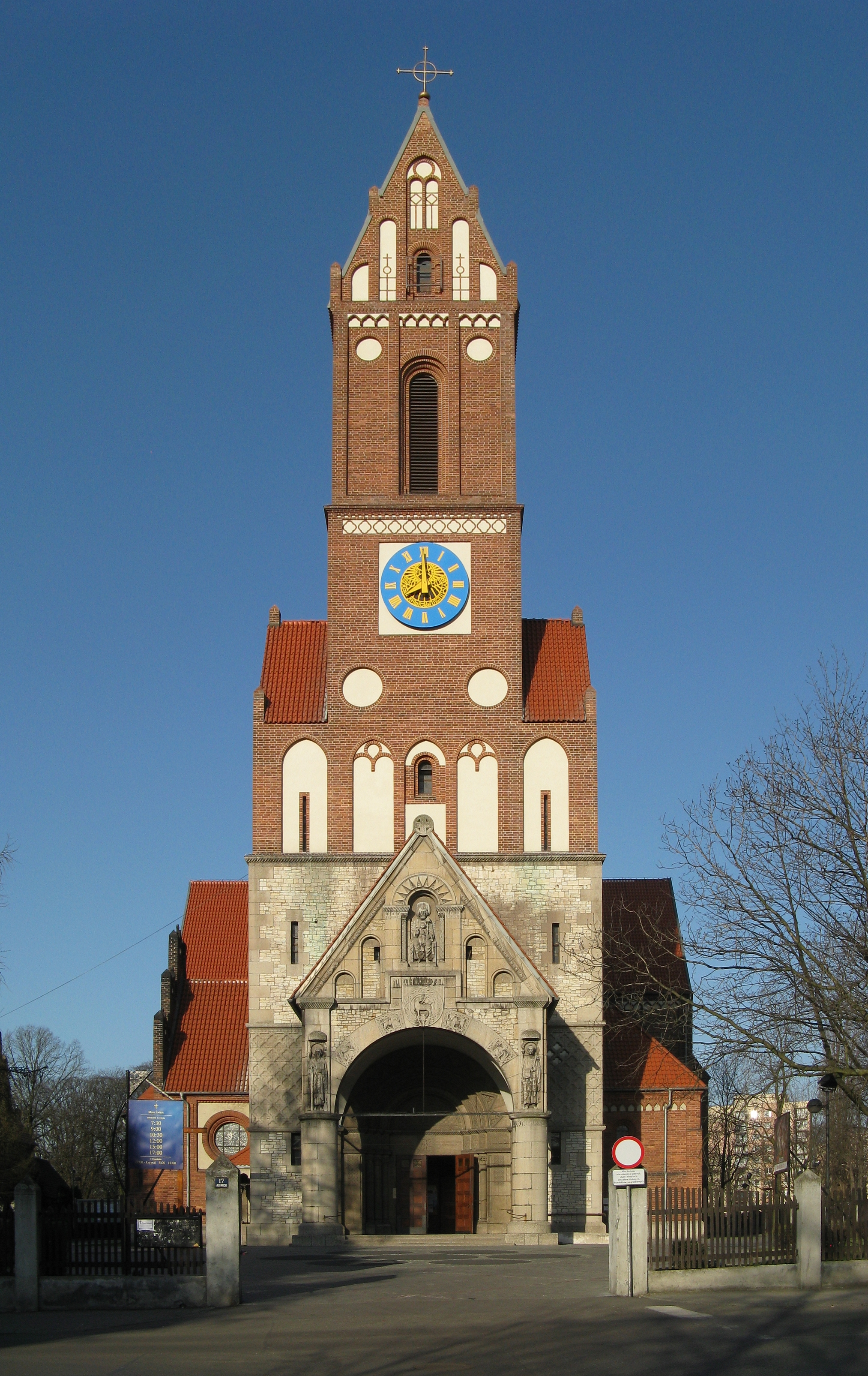 Saint Joseph church in Chorzów, Poland, seen from Krzyżowa street.